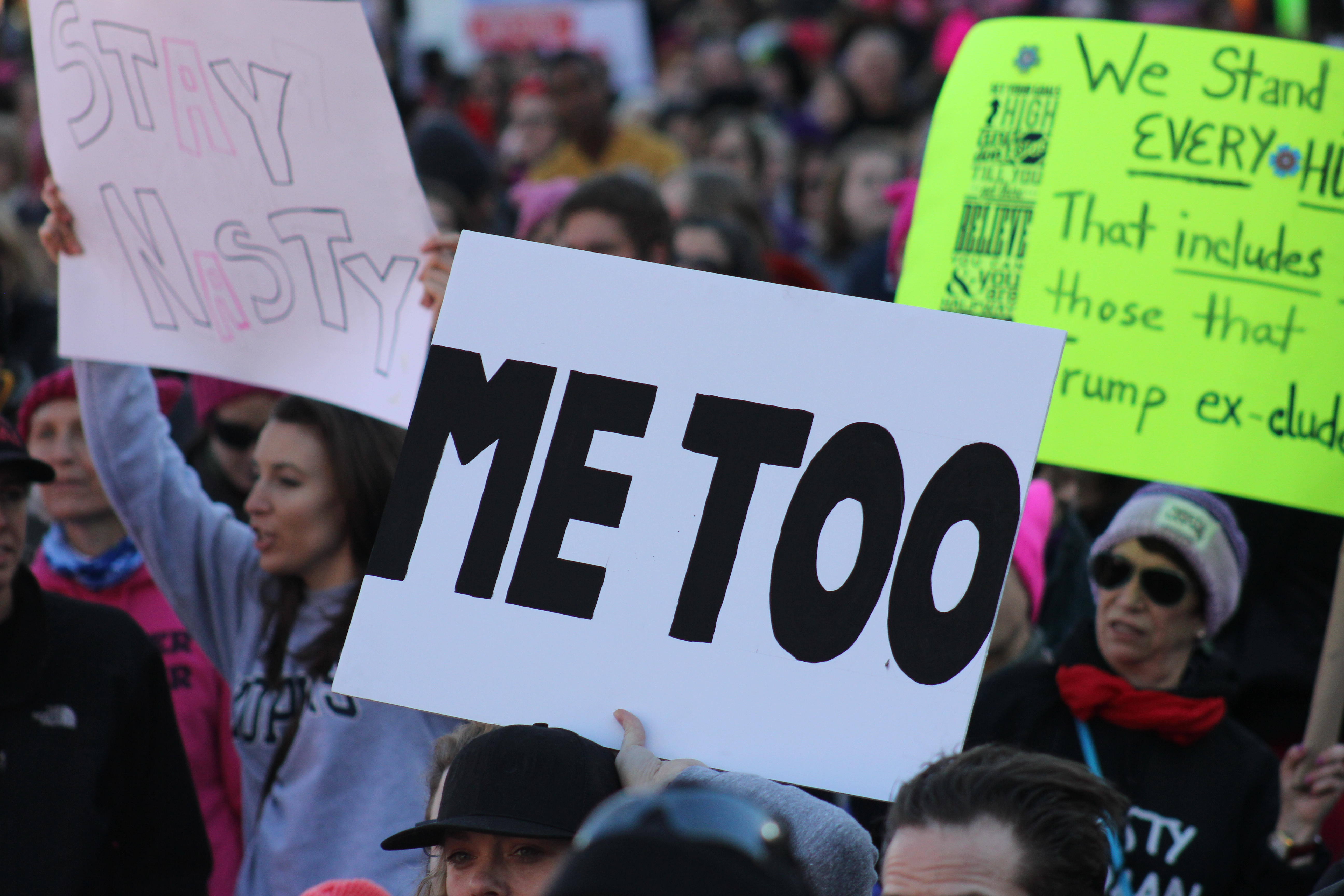 Baltimore Women's March Gathering Rally at War Memorial Plaza at 101 North Gay Street in Baltimore MD on Saturday morning, 20 January 2018 by Elvert Barnes Protest Photography Follow BALTIMORE WOMEN'S MARCH 2018 at Elvert Barnes J20 WOMEN'S MARCH 2018 BALTIMORE docu-project at